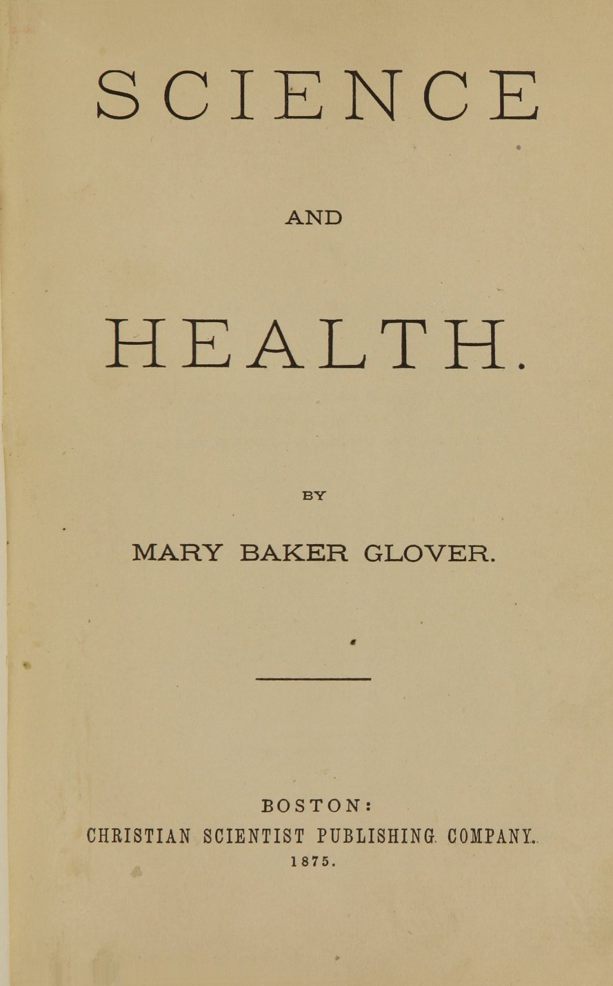 Science and Health (1875) by Mary Baker Eddy, probably the first edition. It uses her surname (Glover) from her first husband, and therefore was before her marriage to her third husband, Asa Gilbert Eddy, in 1877. She began to call herself Mary Baker Eddy after that.